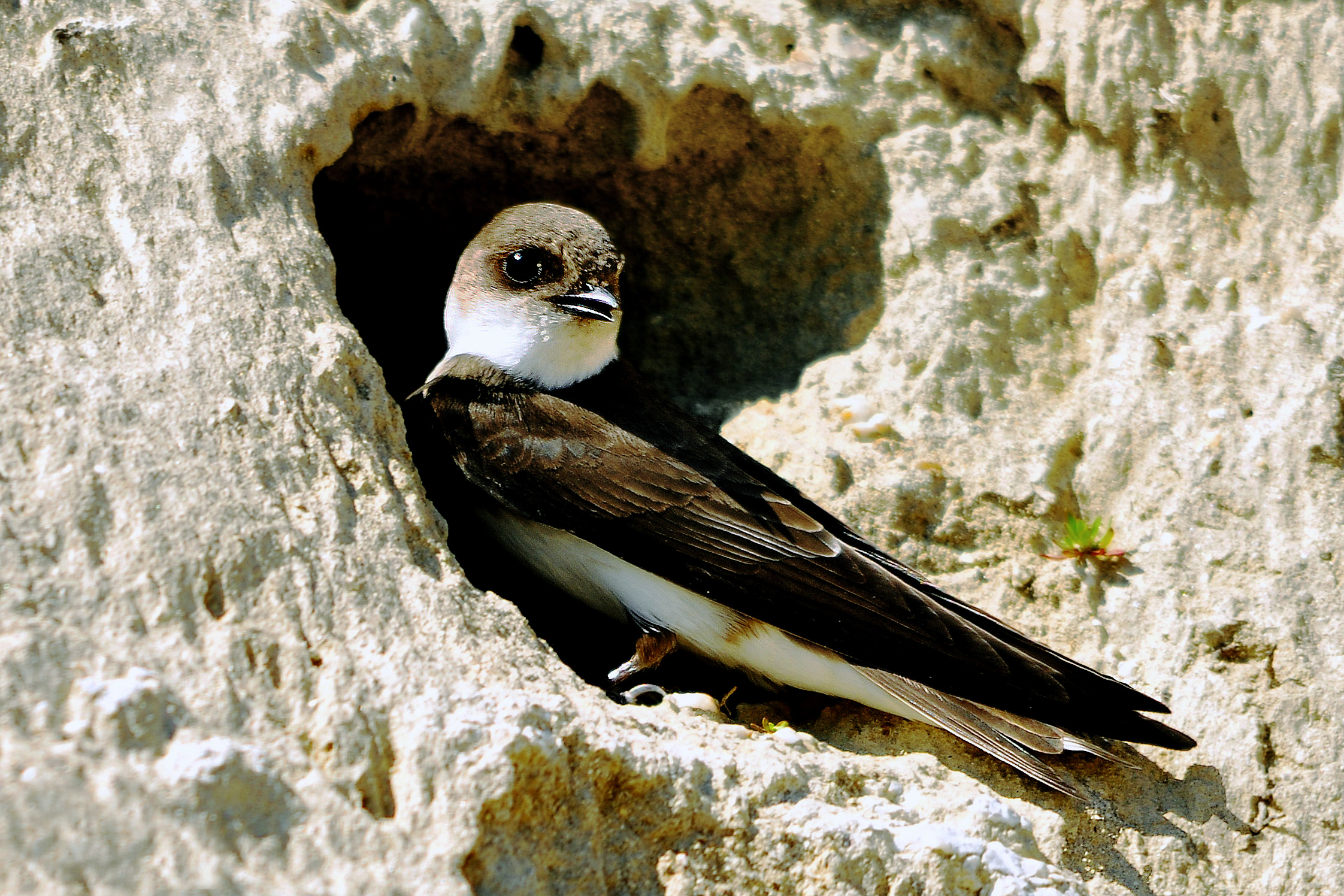 Sand Martin Riparia riparia